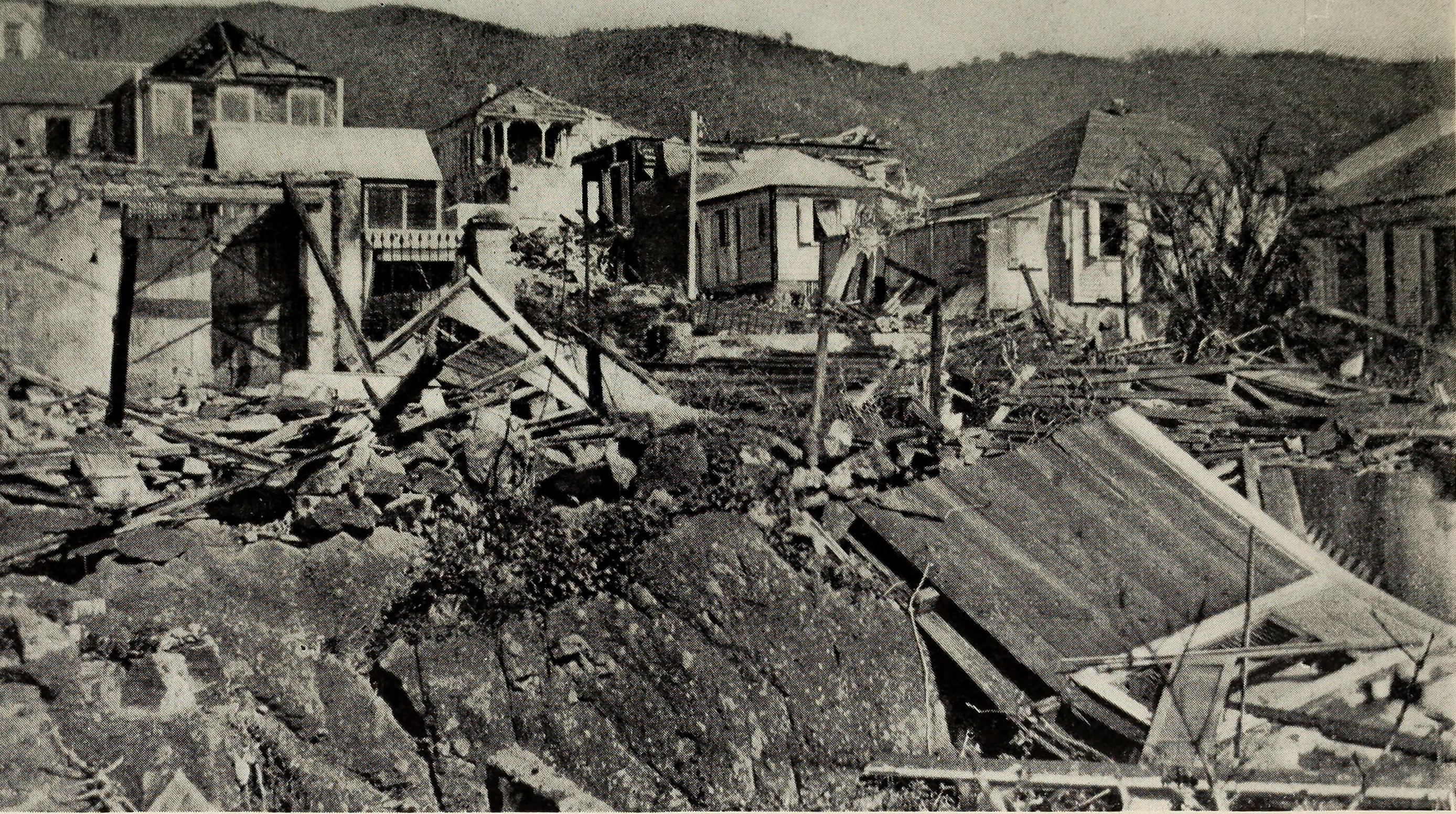 Ruins photographed in St. Croix following a hurricane that struck the Virgin Islands in October 1916.